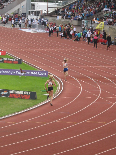 2012 Relay running Finnish Championship in Pori.